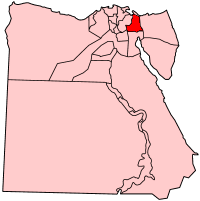 Map of Egypt showing Al Isma'iliyah (Ismailia) governorate. Made by User:Golbez based on PD maps.